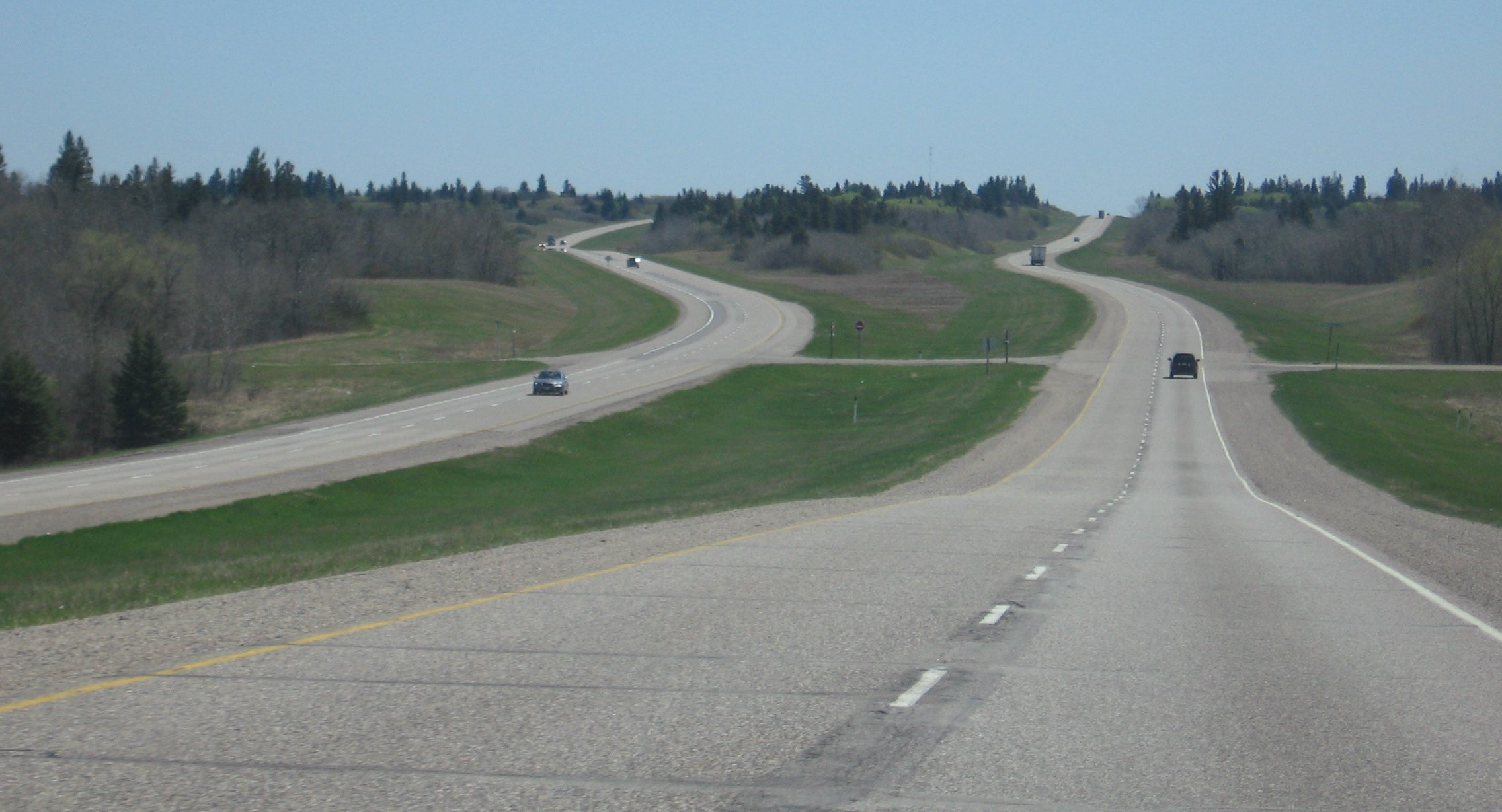 Manitoba Highway 1 between Carberry and Sidney